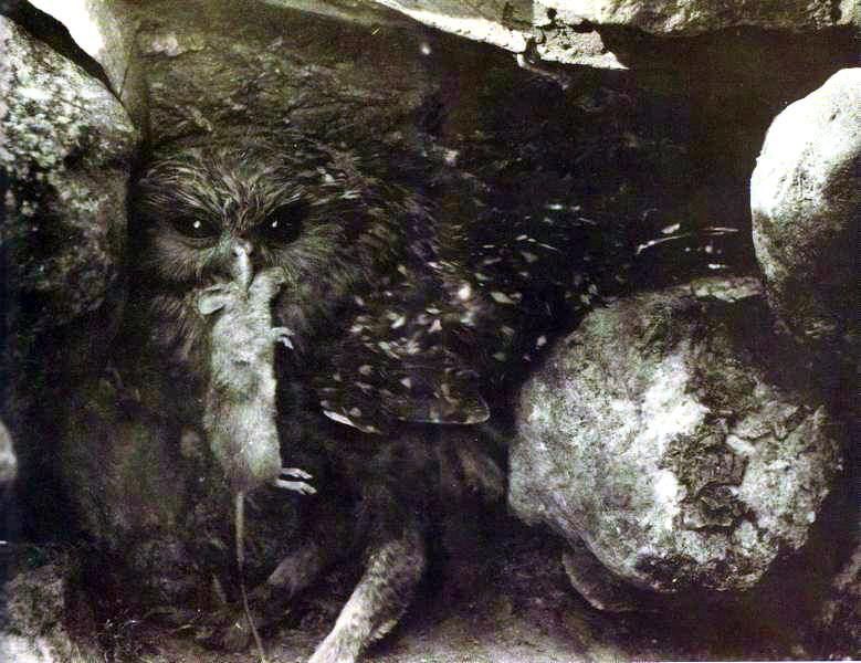 A young bird photographed at its nest in a cavity under a limestone boulder by Cuthbert and Oliver Parr. This photograph was taken about the year 1909 at Raincliff Station, Opihi River, South Canterbury.